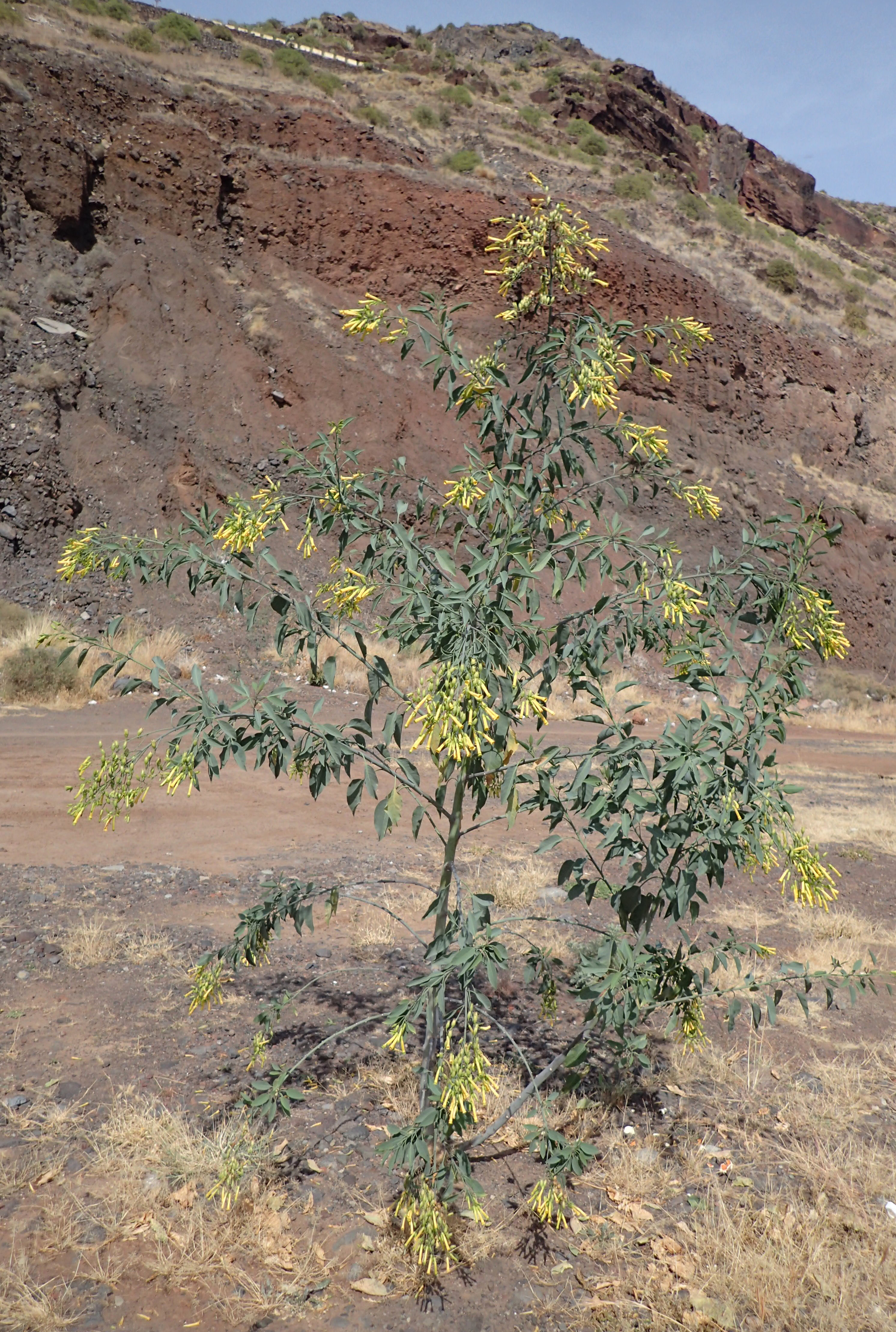 Nicotiana glauca in Playa de las Teresitas, Tenerife, Canary Islands